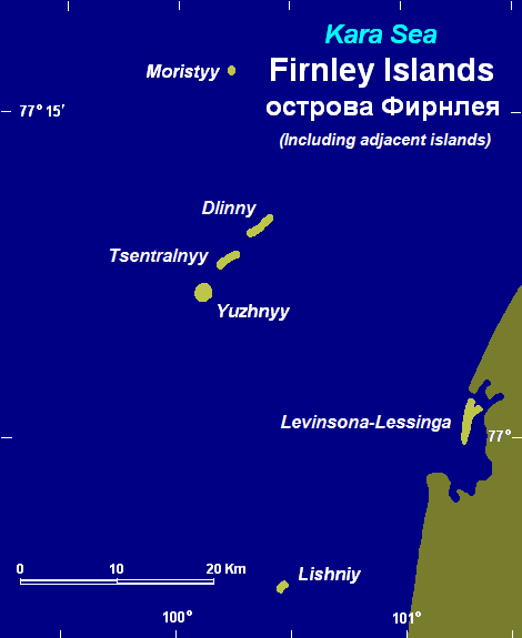 new version of island color map